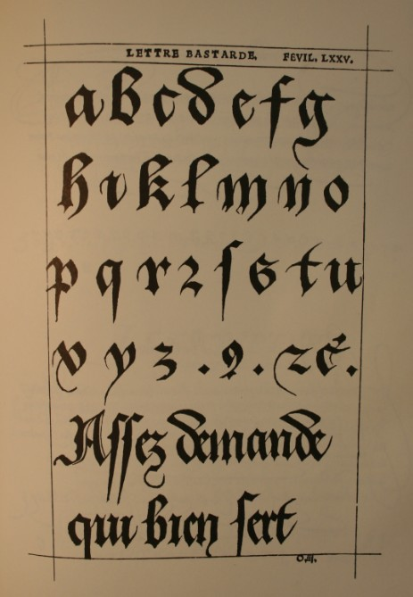 Calligraphy example